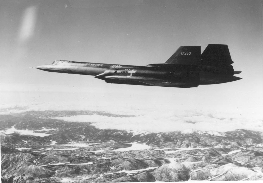 Lockheed SR-71 in flight (SN 61-7953)